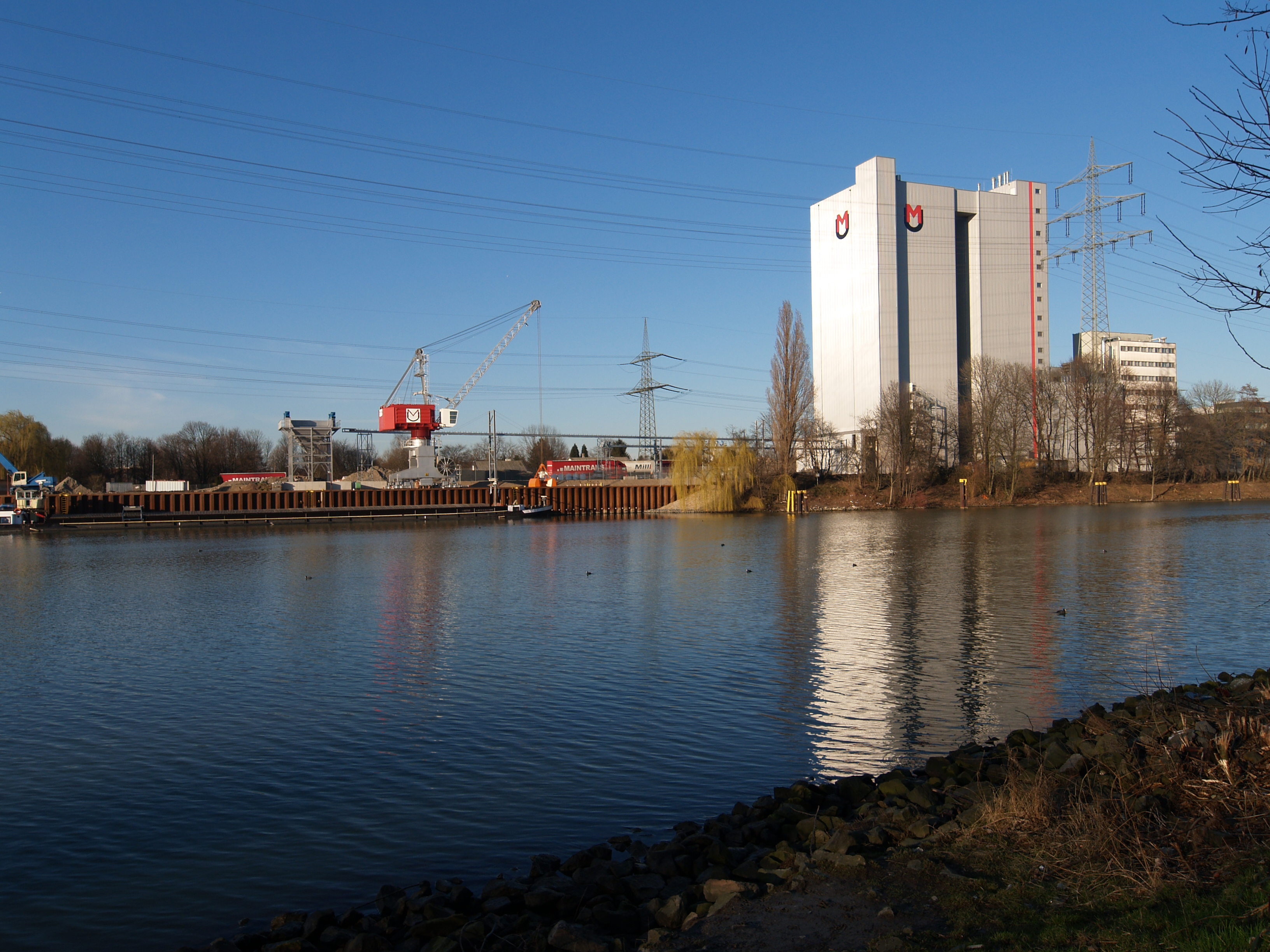 The port of Recklinghausen, Germany, at the Rhein-Herne-Kanal, renewal in 2008